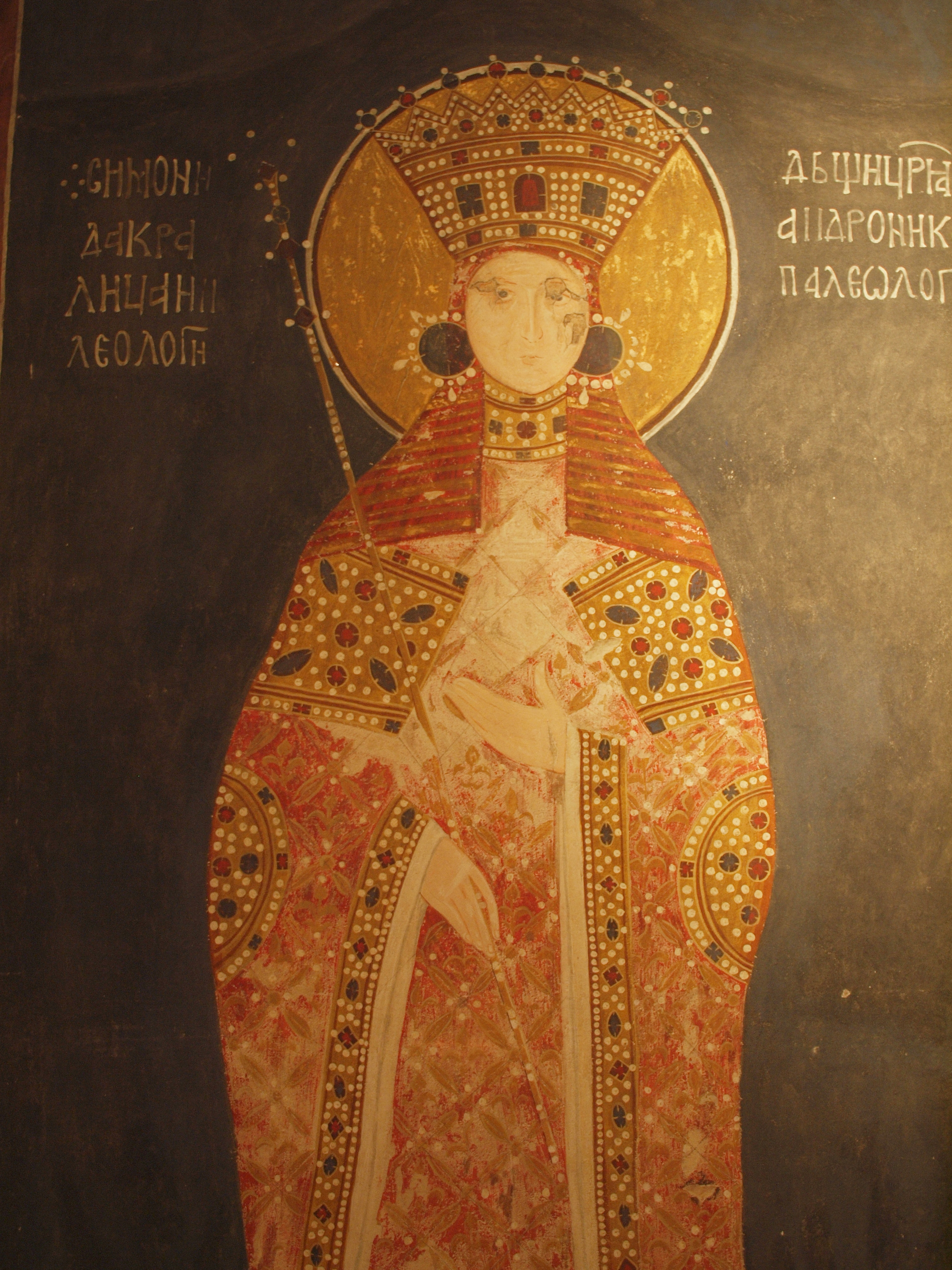 Simonida Nemanjić Simonis Palaiologina Gračanica Monastery